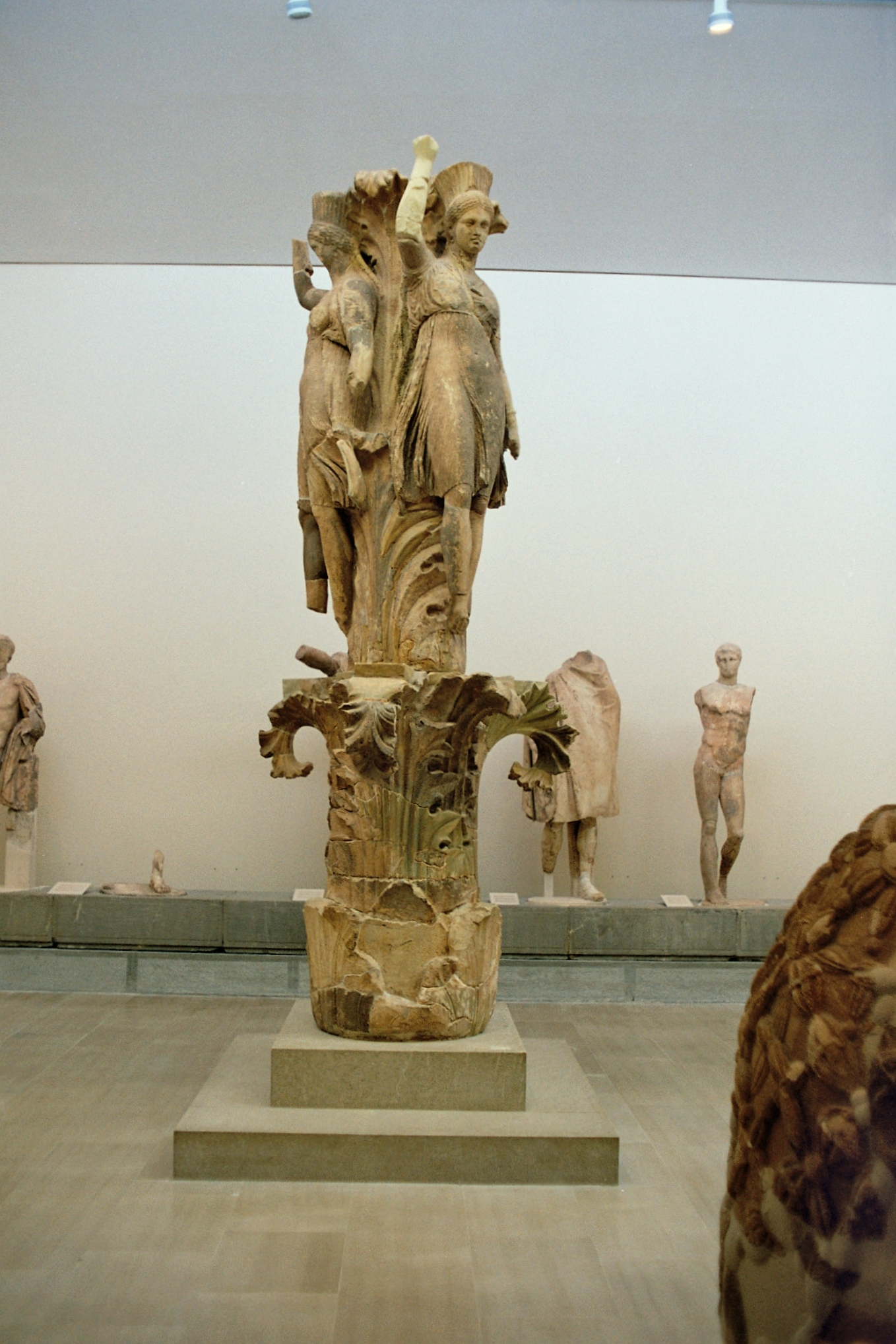 Akanthos, Athenian work, Pentelic marble. They probably held a tripod (not extant) crowned by the omphalos displayed also in the same room. Archaeological Museum of Delphi.